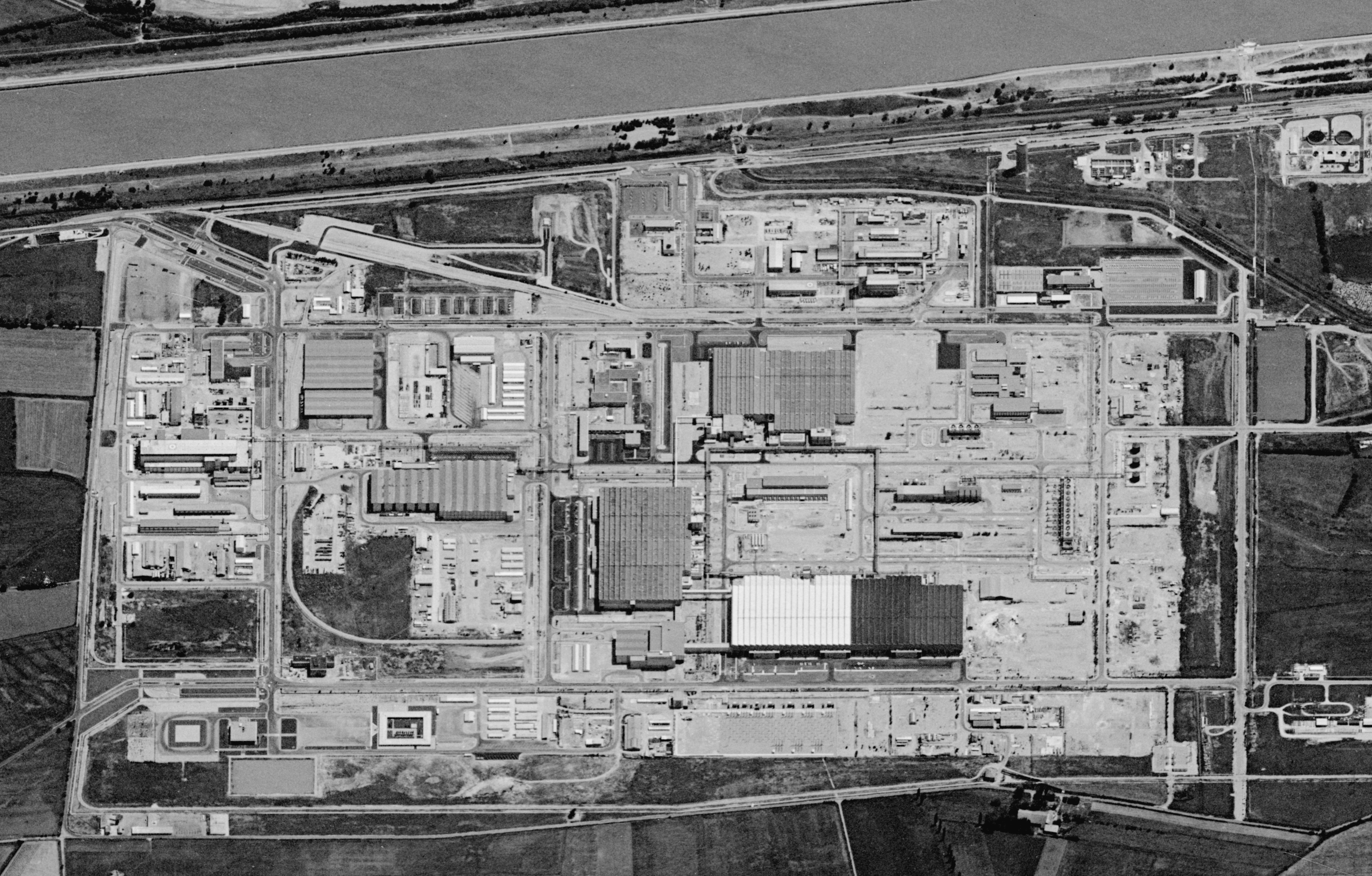 The Pierrelatte Military Uranium Enrichment Plant, France, as photographed by a KH-7/GAMBIT satellite during mission 4038.